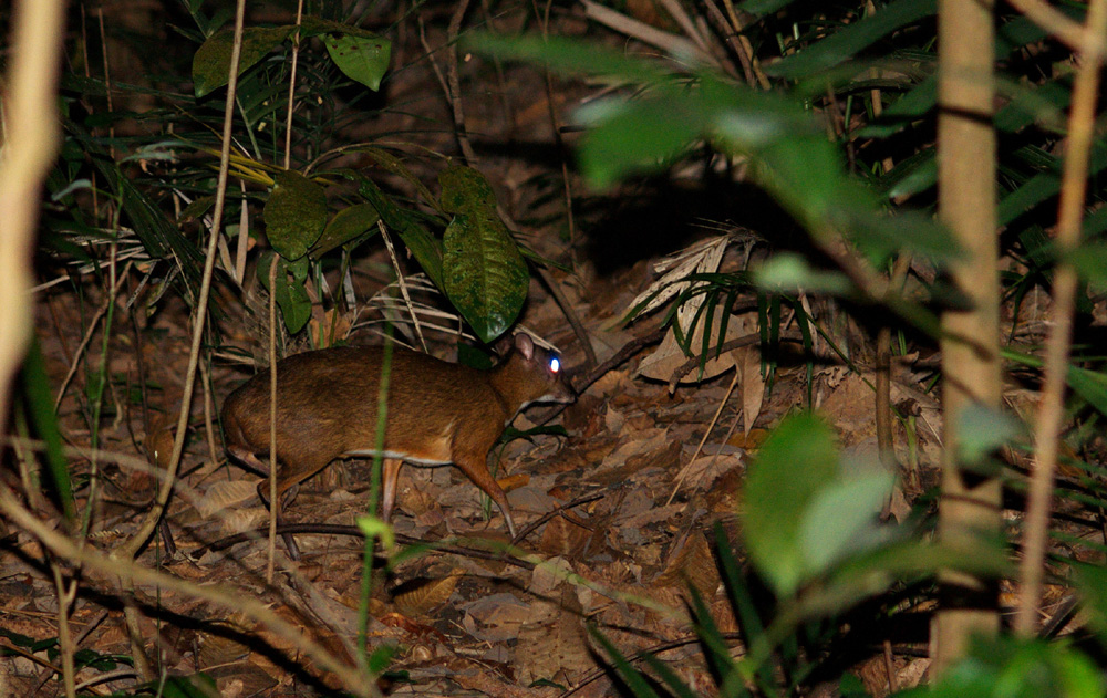 An adult Lesser mouse-deer (Tragulus kanchil) from Singapore.